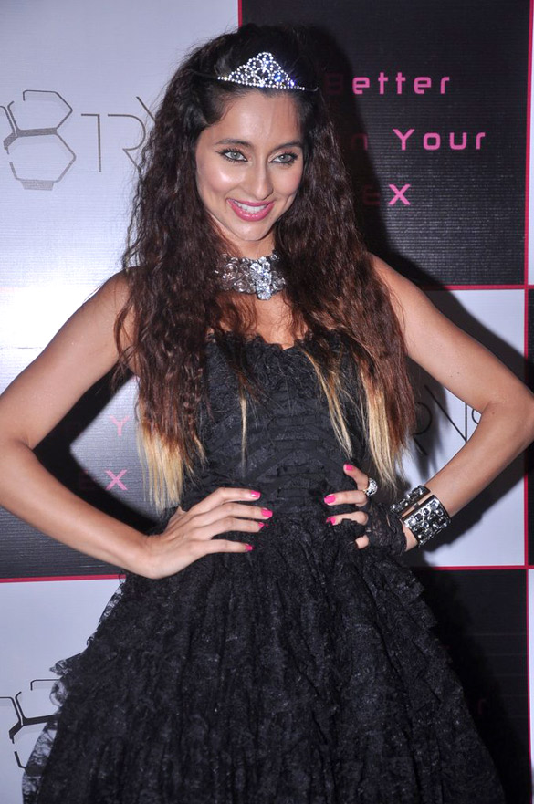 Anusha dhandekar first album launch